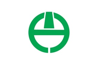 Flag of Uken Kagoshima